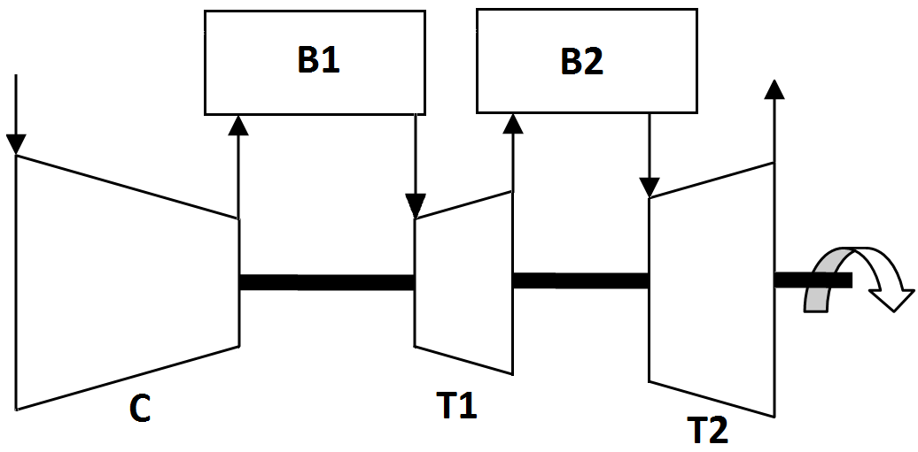 Simplified gasturbine with multistage combustion